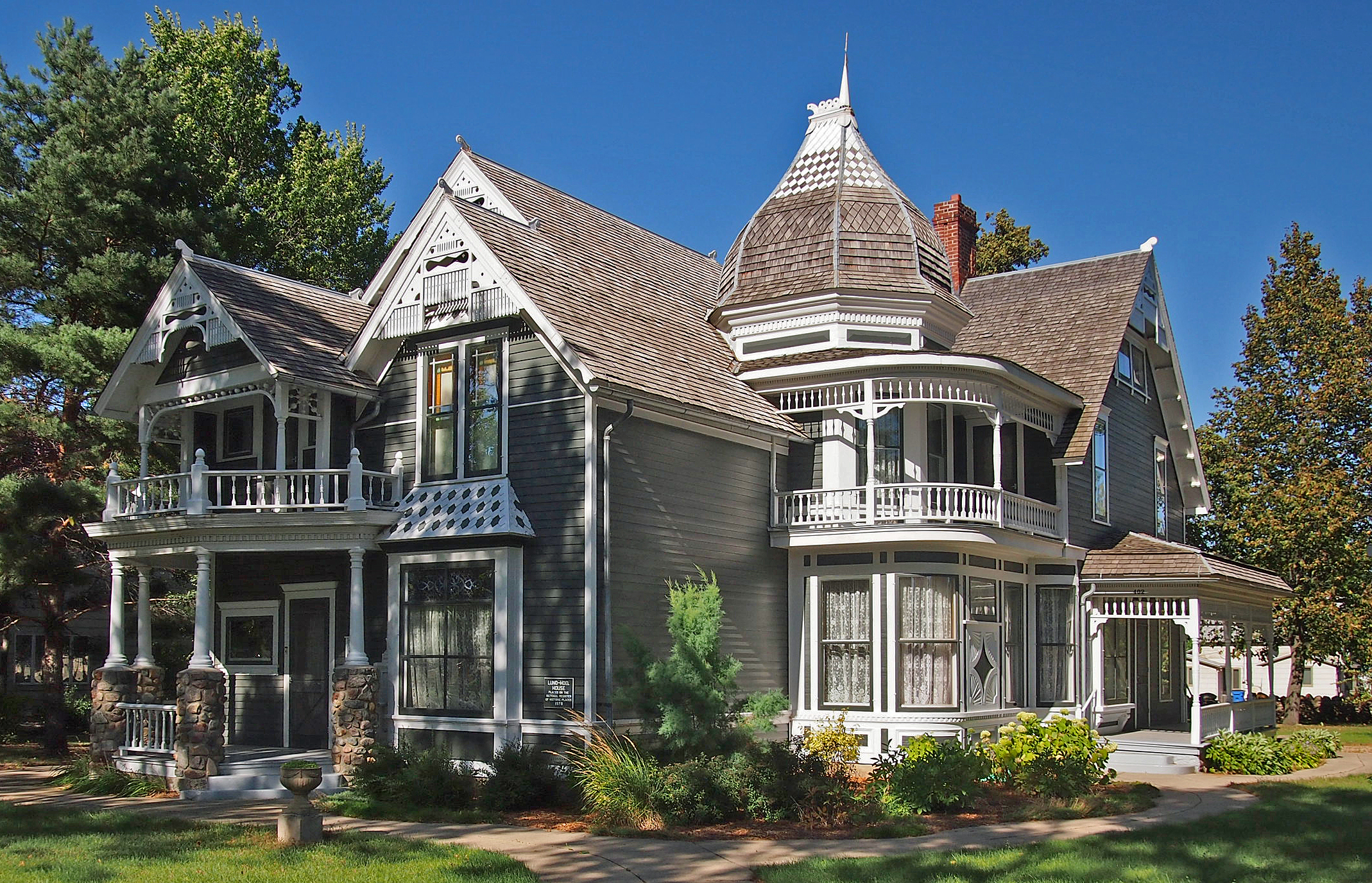 John G. Lund House, Canby, Minnesota, USA. Built in 1891 and extensively remodeled in 1900. Now the Lund-Hoel House. Viewed from the south.